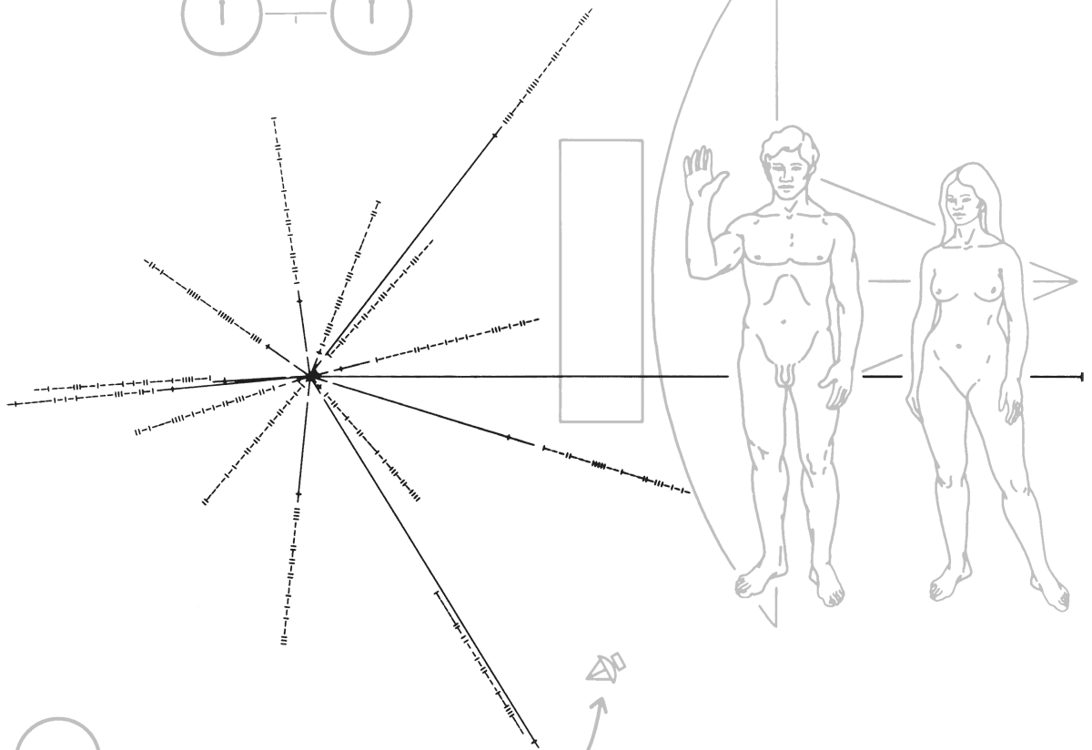 Detail from the Pioneer Plaques.